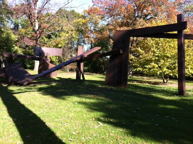 A sculpture along the Green Bay Trail in Glencoe, Illinois